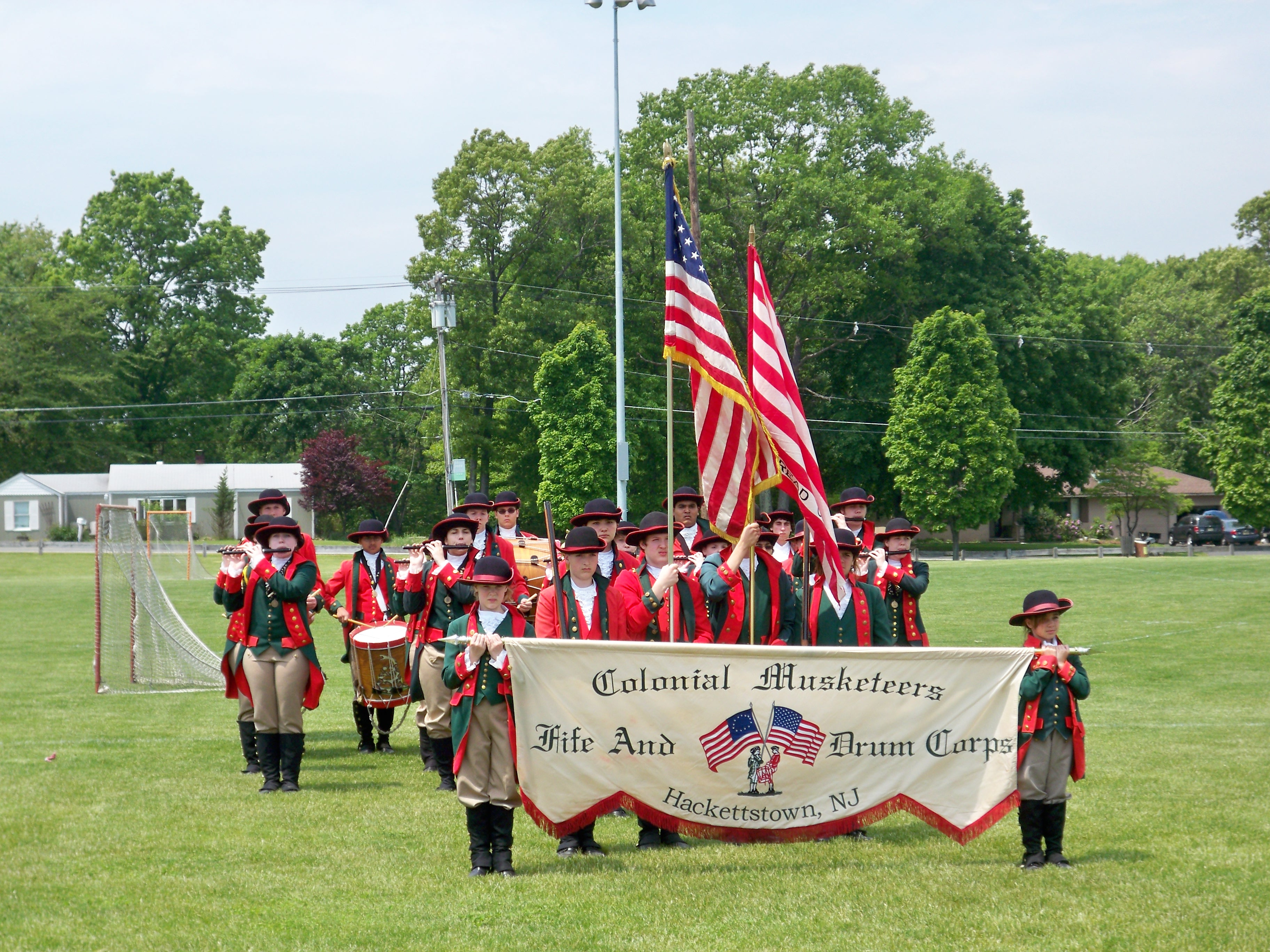 Colonial Musketeers - 2009